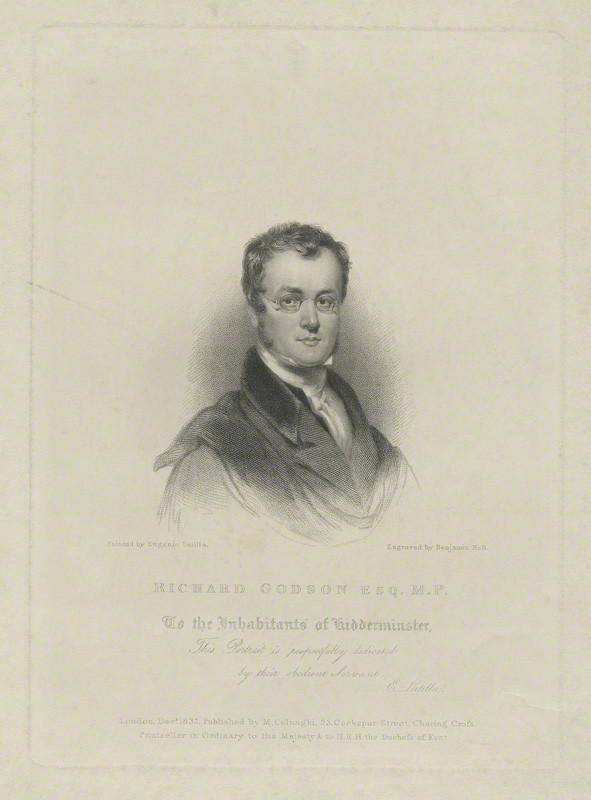 Portrait of Richard Godson (1797–1849), English Member of Parliament.